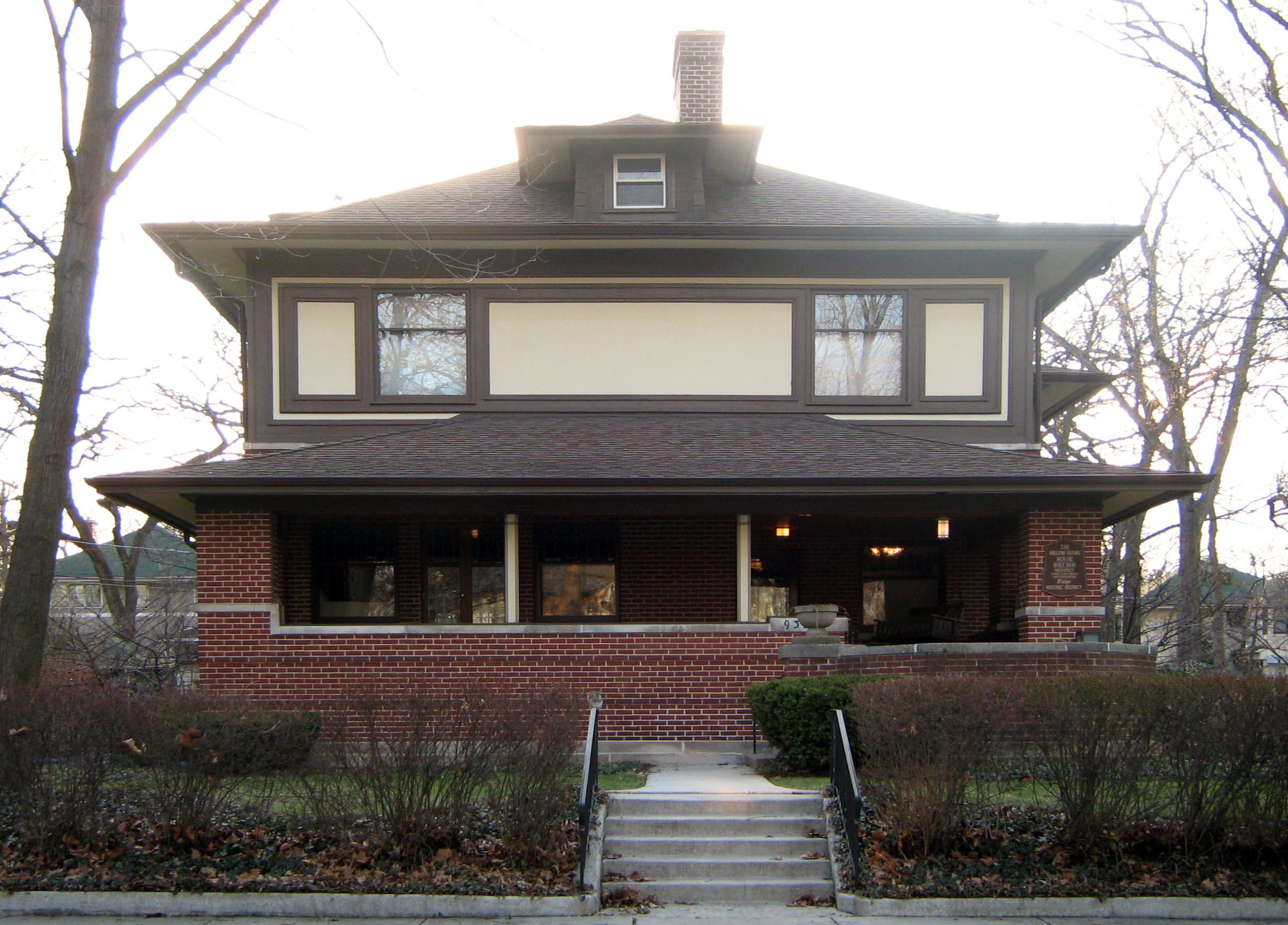 William and Jessie M. Adams House 9326 S Pleasant Ave Chicago, IL 60643 Architect: Frank Lloyd Wright